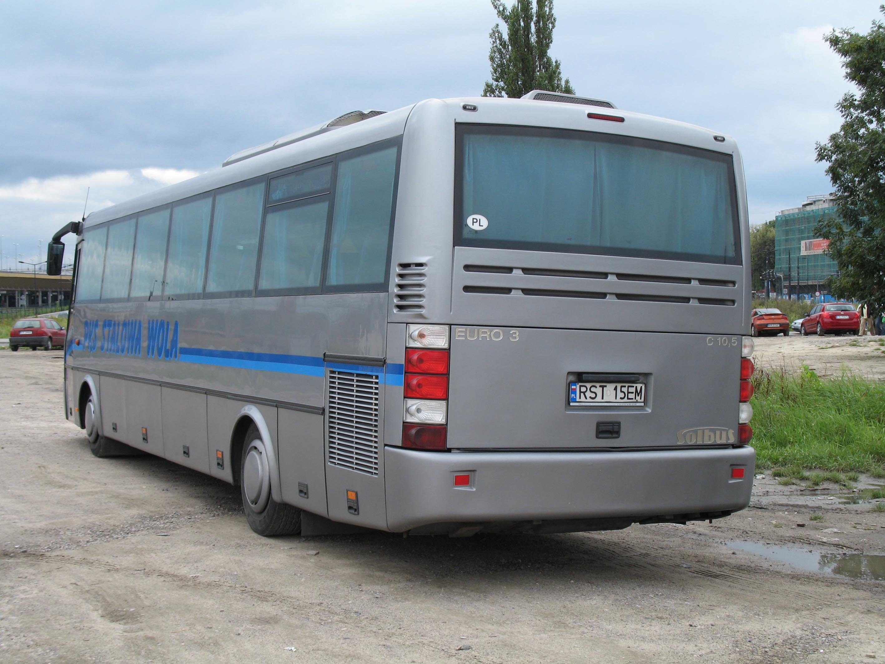 Solbus C 10,5 bus (#SW40626) in Kraków, Poland. Built 2004, PKS Stalowa Wola operator.